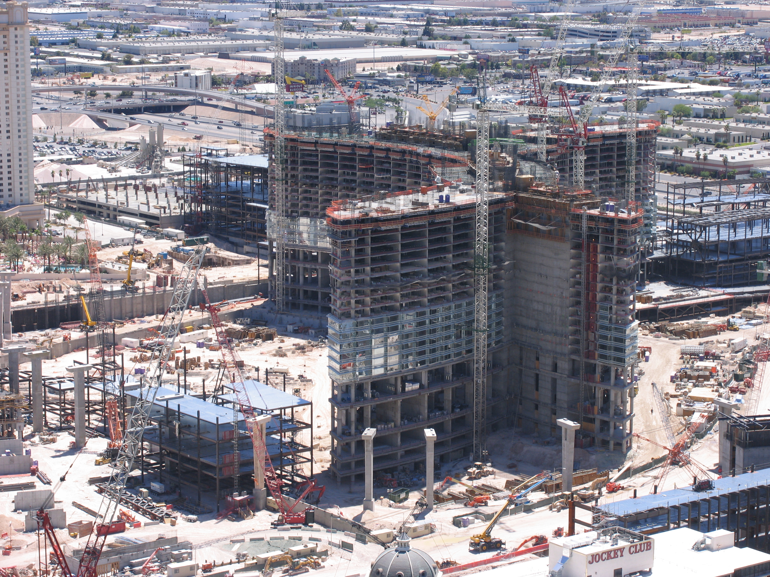 construction work on the Project City Center